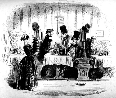 Mr. Guppy's Entertainment Phiz (Hablot K. Browne) 1853 Etching 4 x 4 5/8 inches on a page of 8 7/16 x 5 inches Facing p. 194 (ch 20, "A New Lodger")